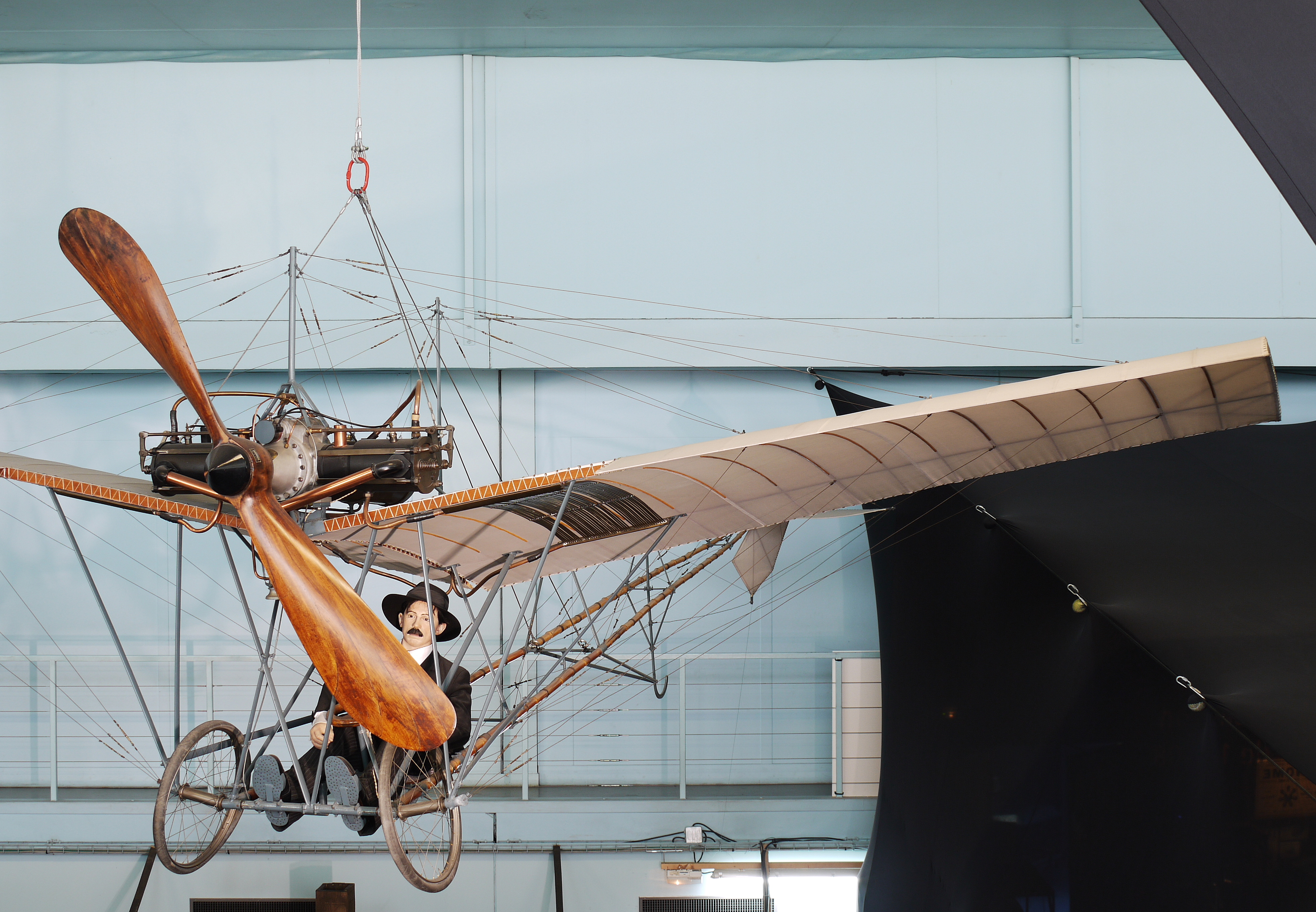 Airplane "Demoiselle" n° 21 from Alberto Santos-Dumont (1909), Musée de l'Air et de l'Espace Paris Le Bourget (France) 5.50 m x 6.20 meter (length) , weight : 118 kg; motor flat-twin Darracq 30 CV cooled by water